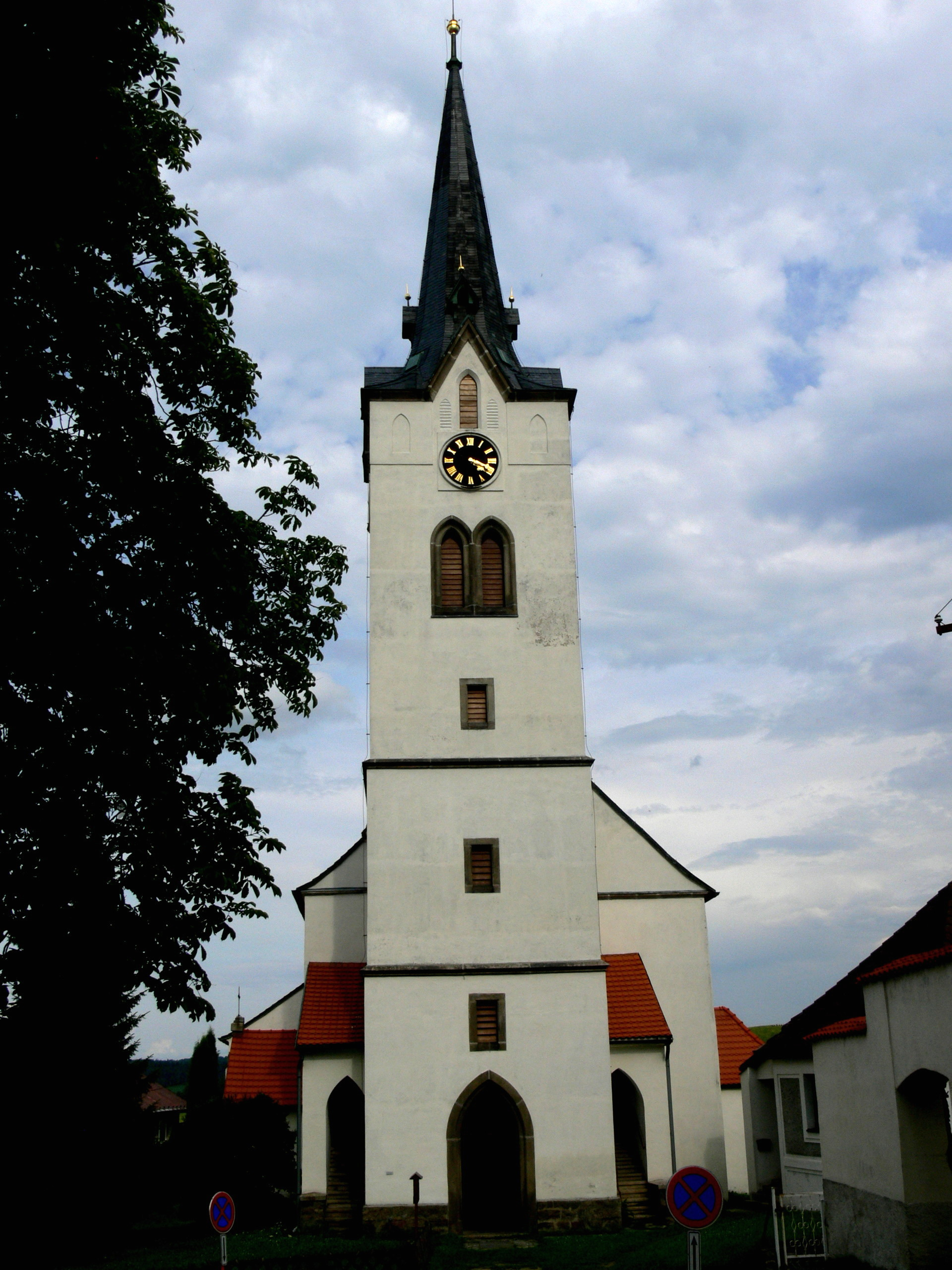 Saint Catherine´s church in Hořice na Šumavě, Czech Republic. Facade with bell tower.